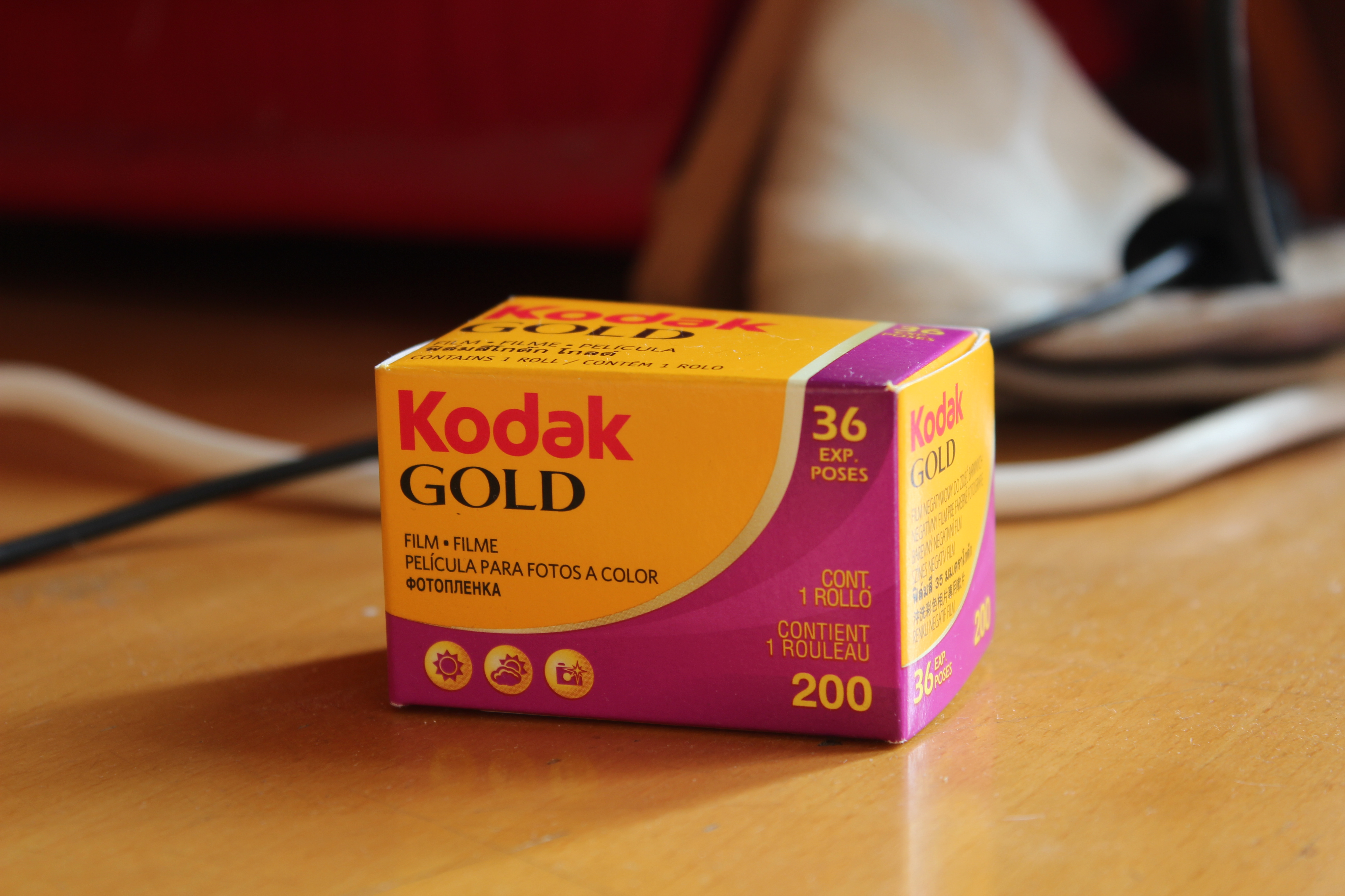 Kodak Gold 200 Film retail package, containing 36 exposures. This package is different from the old one, changing the logo to the latest one and using the new box design.